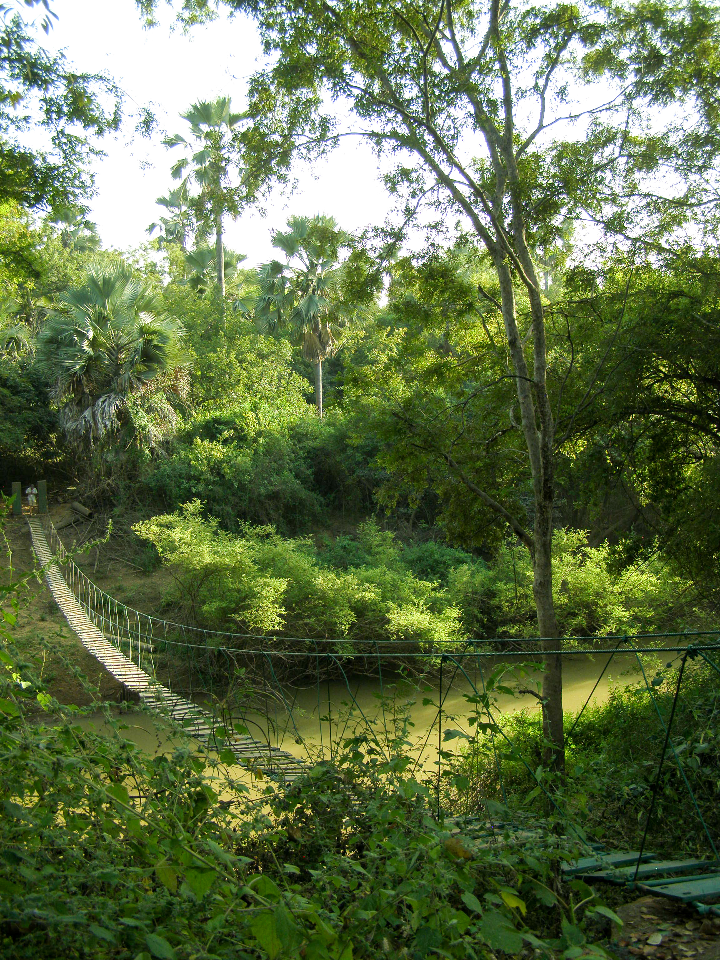 “Adjudant-Chef Nouha Sane” suspension bridge in the Niokolo-Koba National Park - Tambacounda Region - Senegal. This is an image with the theme "Africa on the Move or Transport" from: Senegal